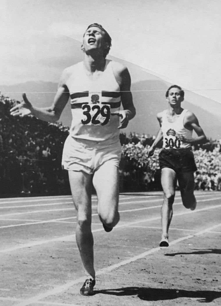 HISTORIC 1953 ENGLISH RUNNER ROGER BANNISTER, 4 MINUTE MILE TYPE 1 WIRE PHOTO